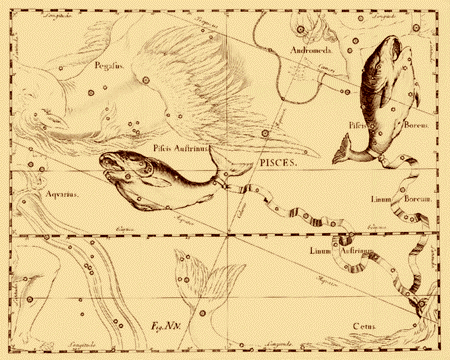 The Pisces (constellation) constellation from Uranographia by Johannes Hevelius. The view is mirrored following the tradition of celestial globes, showing the celestial sphere in a view from "ouside"